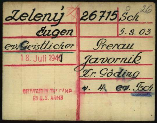 Registration card of Eugen Zelený as a prisoner at Dachau Nazi Concentration Camp. Red stamp means he was liberated from Dachau by the U. S. Army.